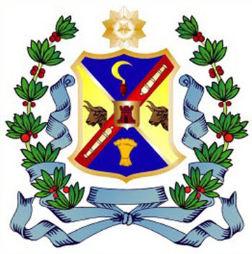 beerfebr